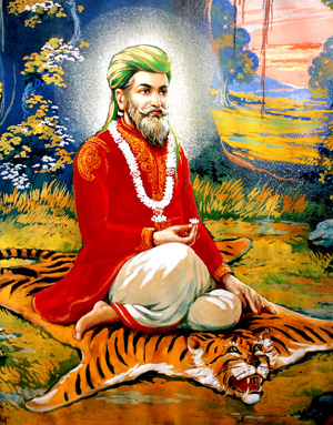 Maharaj ji